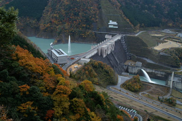 nagashima-dam